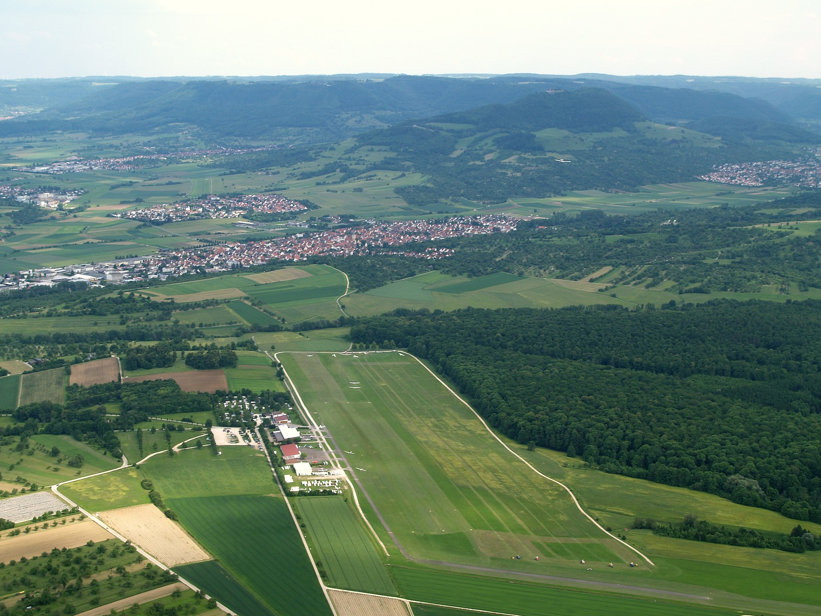 Hahnweide Special Airfield, Germany